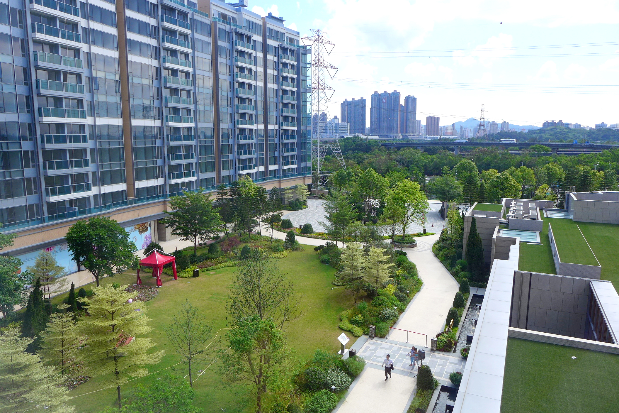 Park YOHO Phase 1B Landscape area